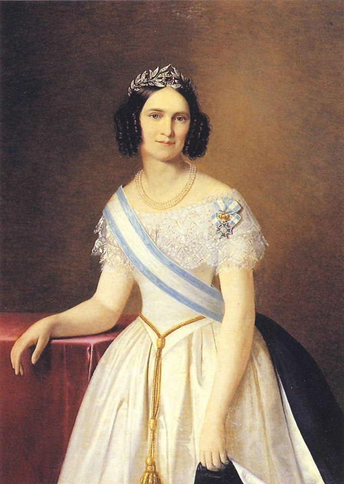 Princess Adelgunde of Bavaria (1823-1914), duchess of Modena and Reggio Emilia